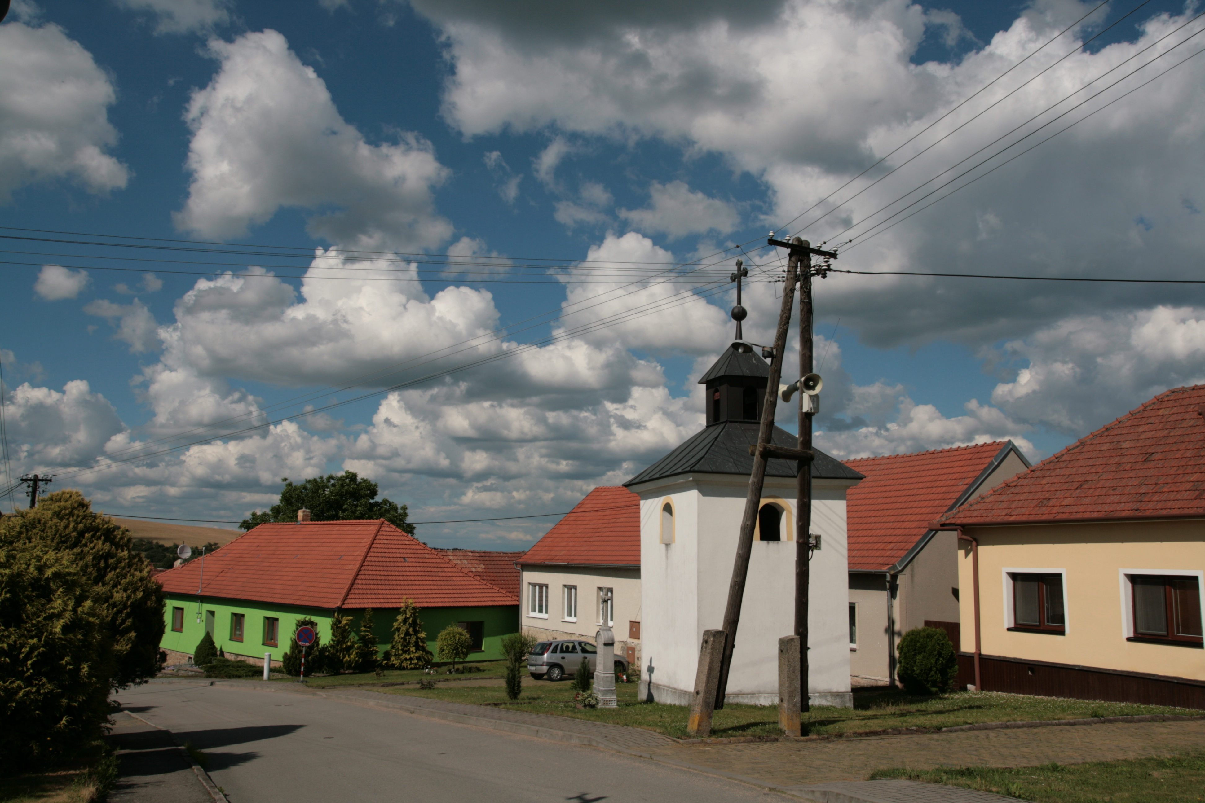 Brťov-Jeneč, Blansko District, Czech Republic. Bell tower at the village green of Jeneč.